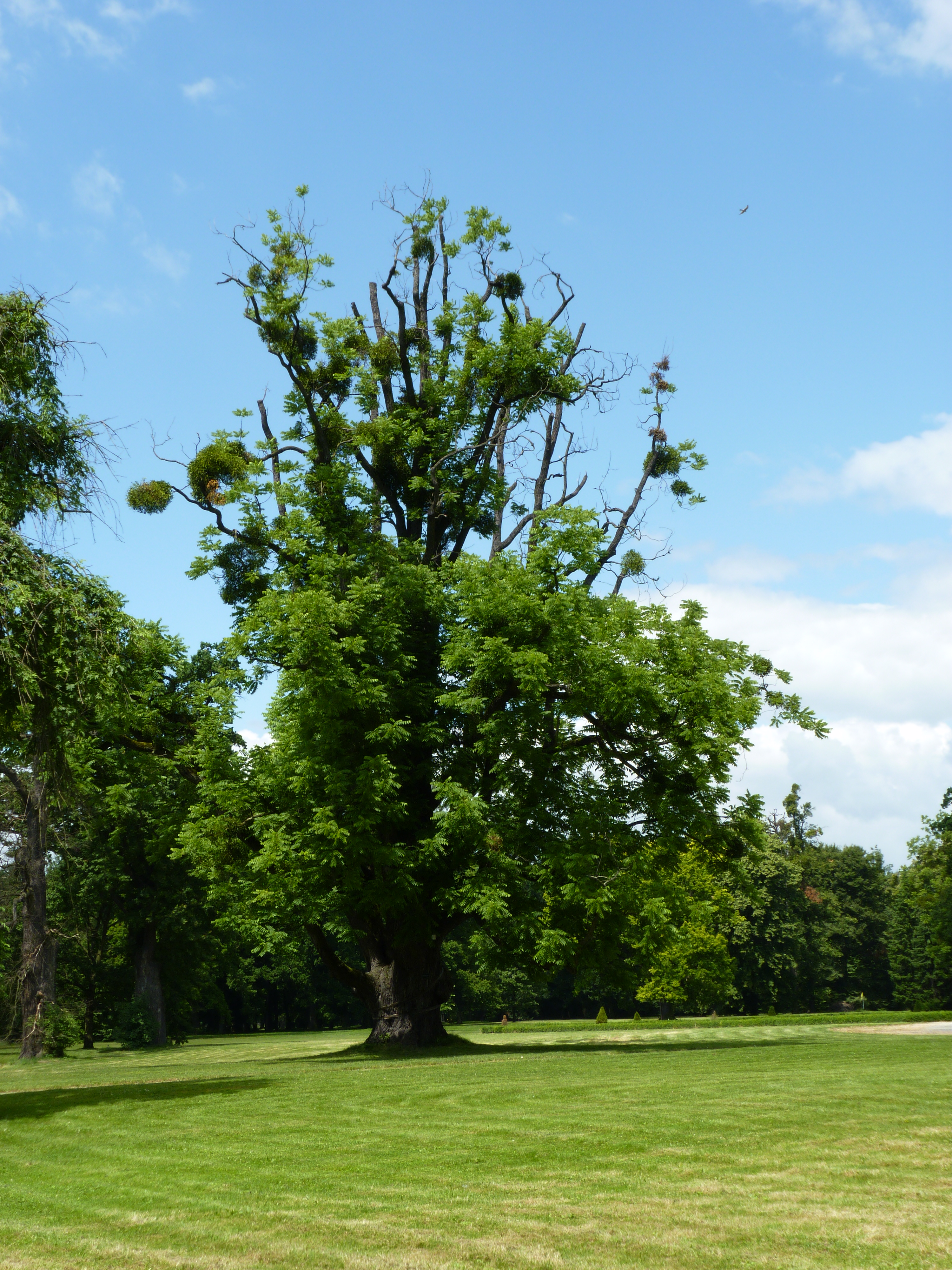 Juglans nigra in the graden of Kravaře Castle, Moravian-Silesian Region, Czech Republic